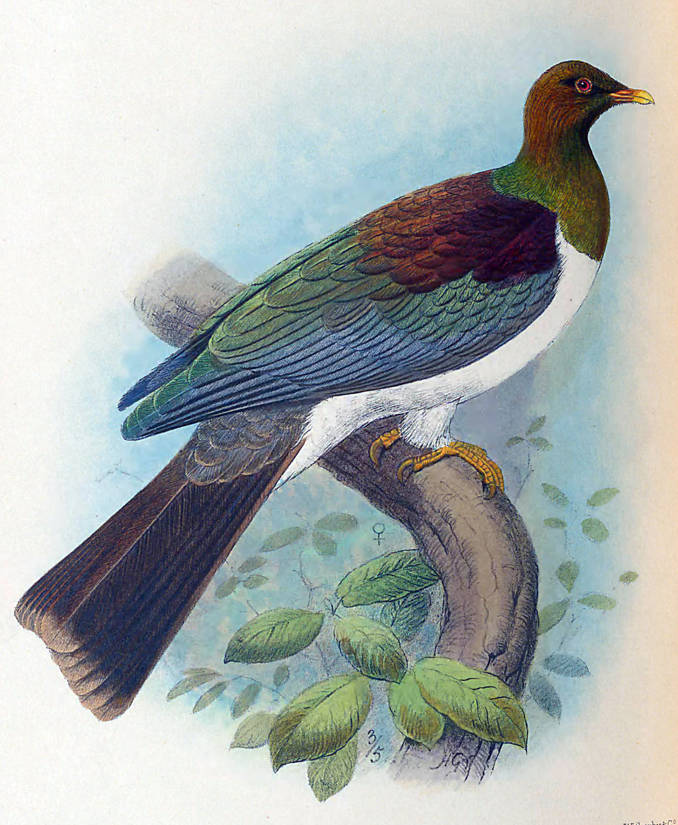 Hand coloured lithograph (1928) of (Hemiphaga spadicea) which is now a synonym of the Norfolk Island Kererū (Hemiphaga novaeseelandiae spadicea) from The Birds of Australia (1910-28) by Gregory Macalister Mathews (1876-1949) - artwork by Henrik Gronvold (1858–1940) a Danish bird illustrator.